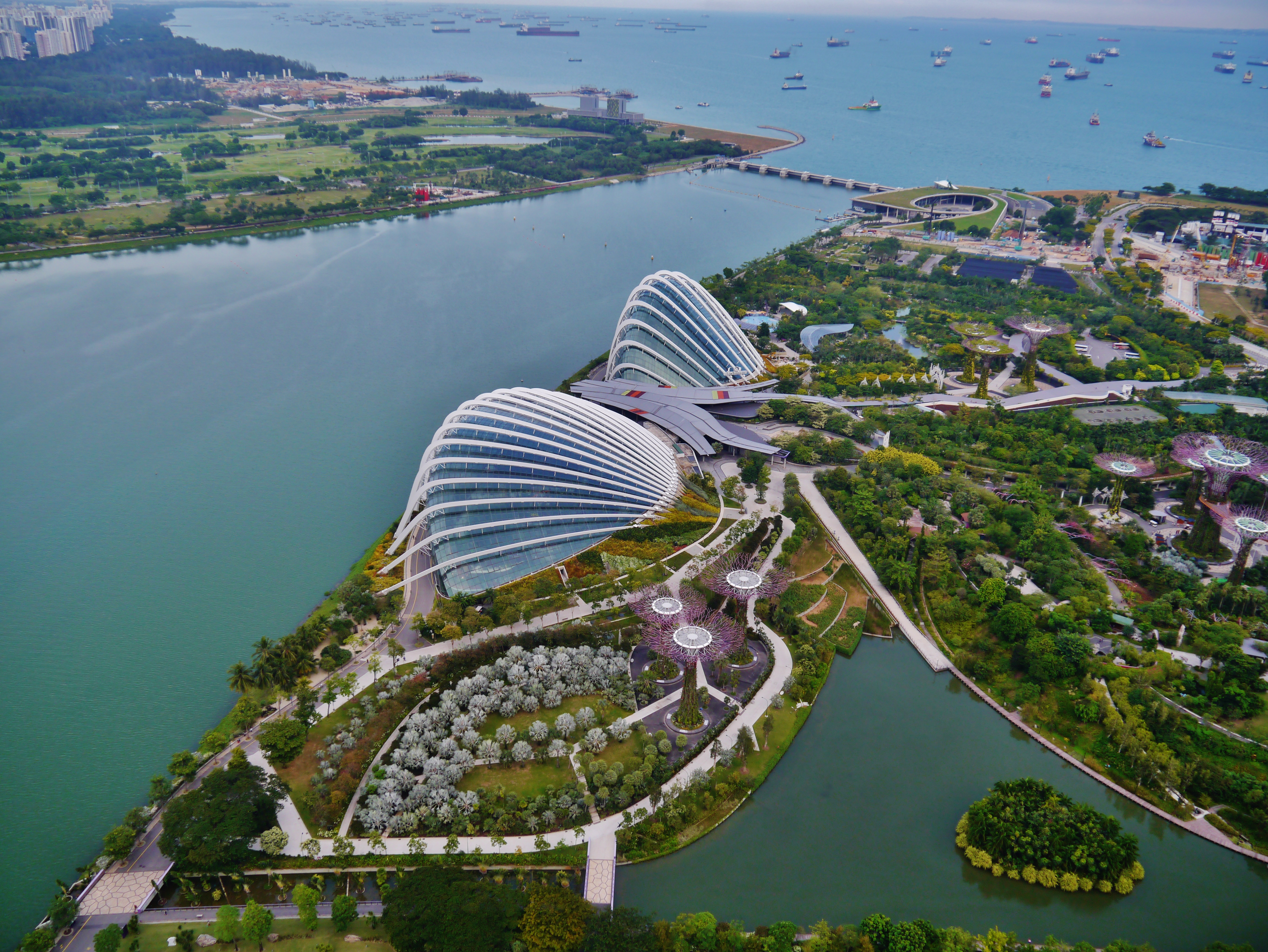 View from Marina Bay Sands to Gardens by the Bay, Singapore